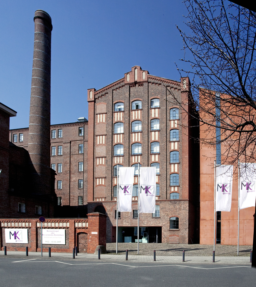 Museum Küppersmühle at Duisburg, lower rhine-area